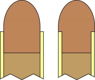 This diagram depicts a Heeled bullet at right, compared to a modern bullet design at left.